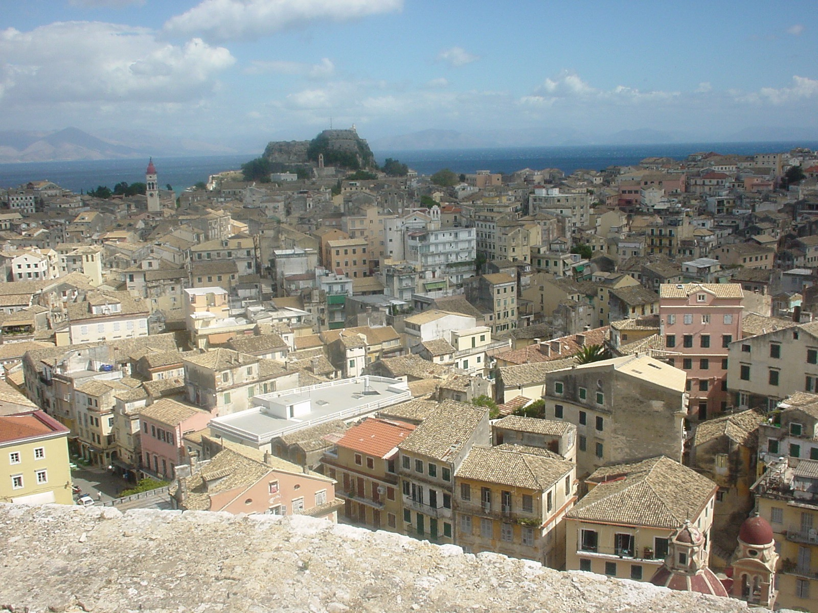 The Old Fort, Corfu Town, Corfu, Greece, as seen from the New Fort.